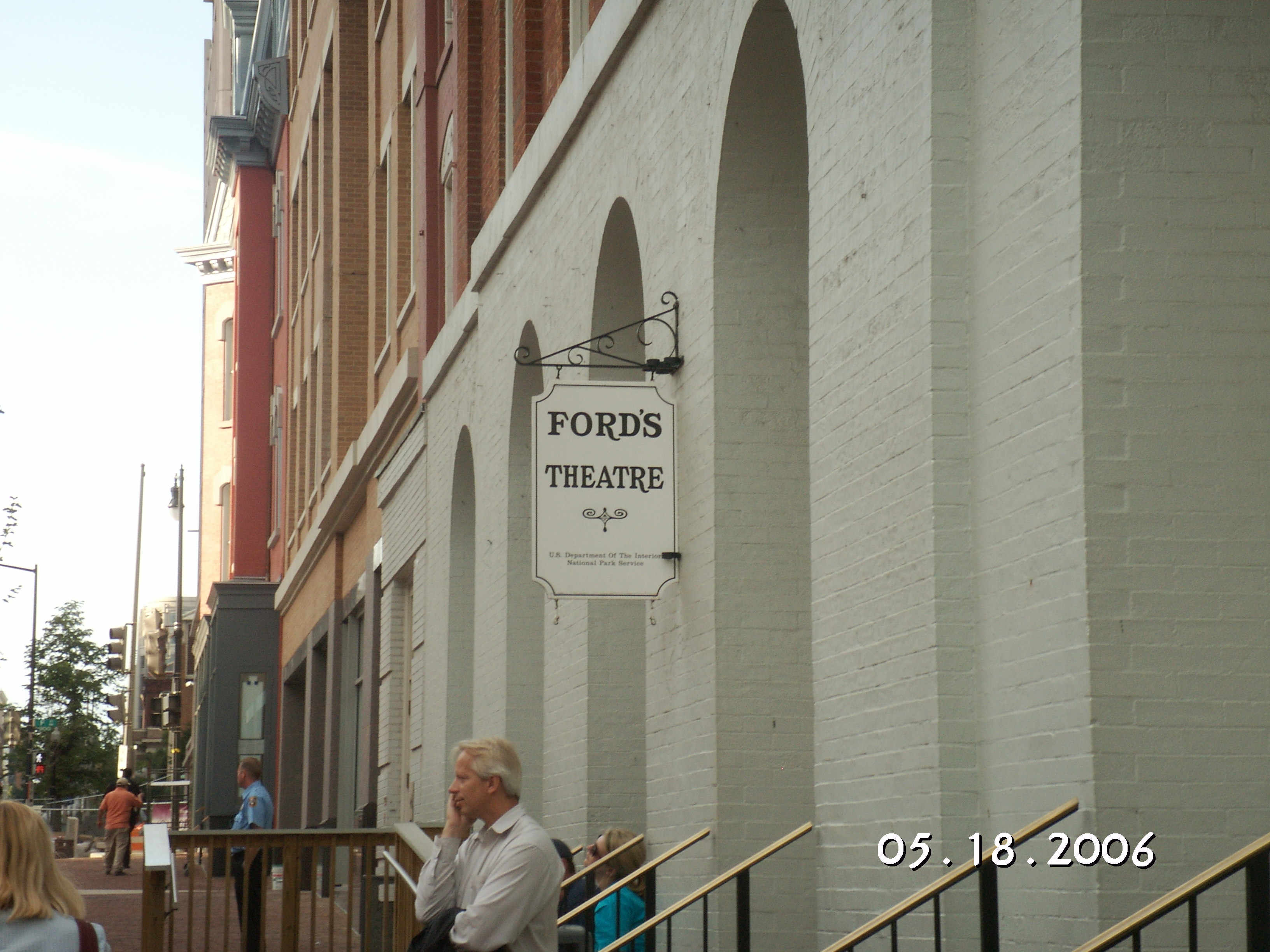 C. John Chavis